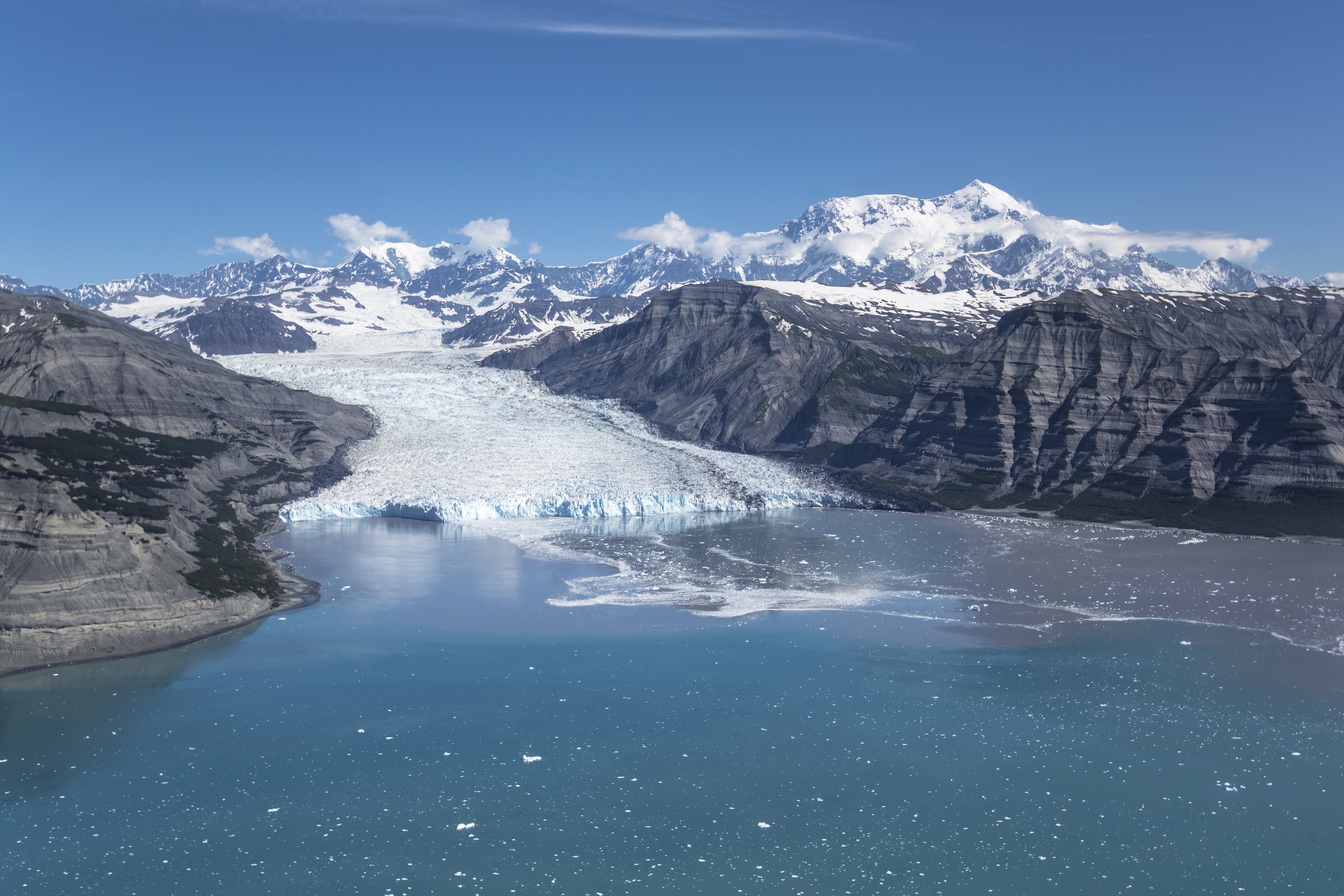 Icy Bay, Tyndall Glacier, and Mount St. Elias Flight paths